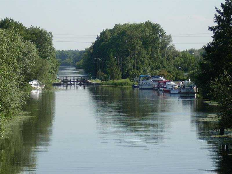 Pątnów Lock - view from high water side